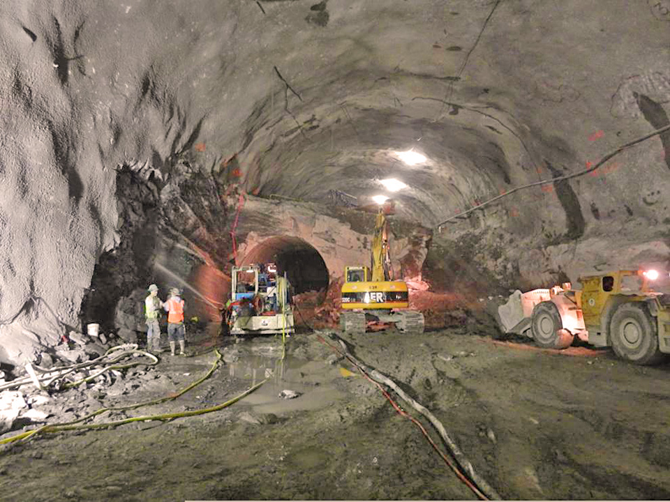 Work continues on the Second Avenue Subway. This photo shows the 72 Street cavern excavation.